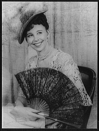 Irra Petina photo taken by Carl Van Vechten, photographer. Portrait of Irra Petina, in Magdalena